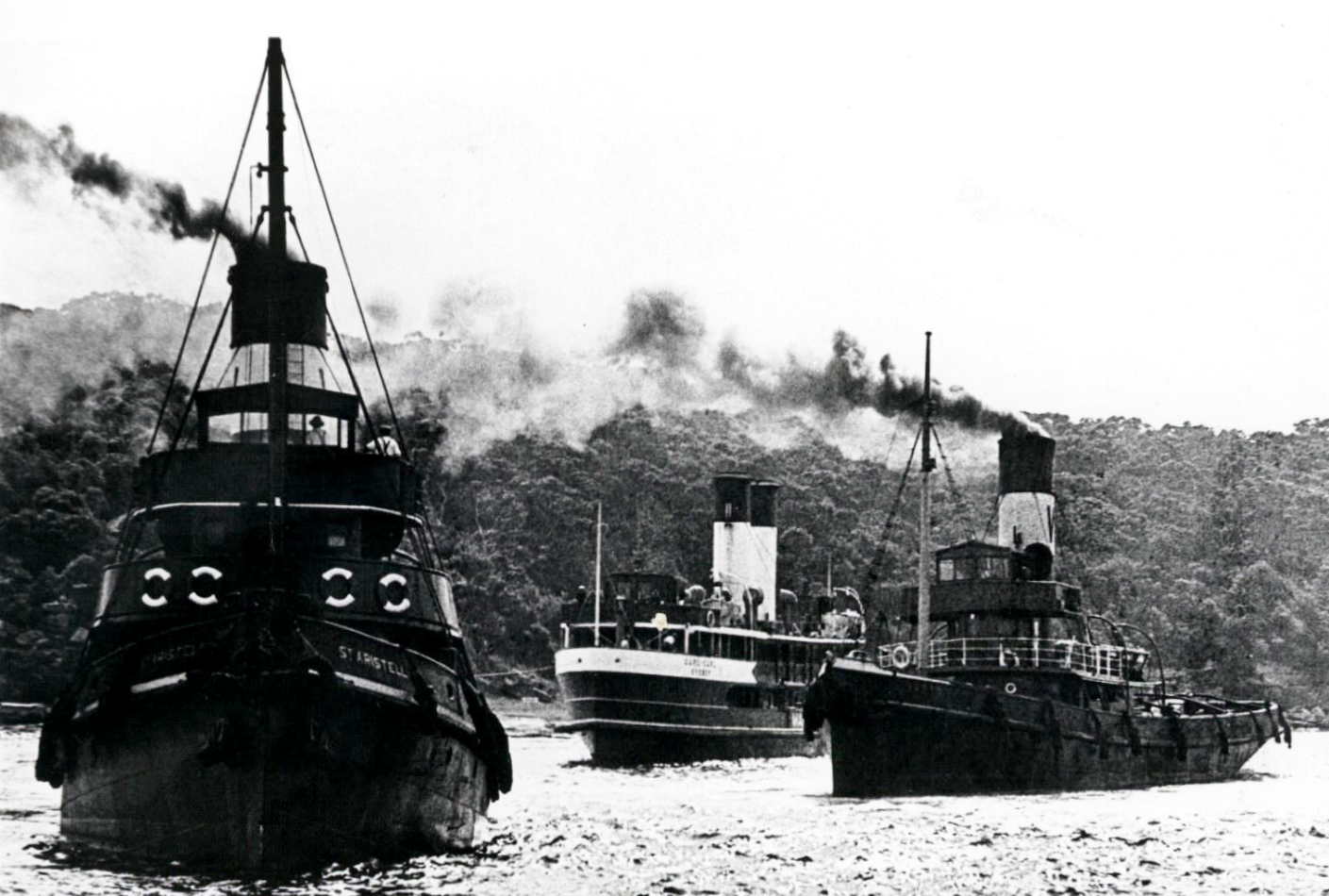 Sydney ferry CURL CURL aground at Bradleys Head with tugs ST ARISTEL and LINDFIELD 31 March 1936. Graeme Andrews, CURL CURL, aground with tugs, 31 March 1936. (31/03/1936), [A-00075658]. City of Sydney Archives, accessed 31 May 2020